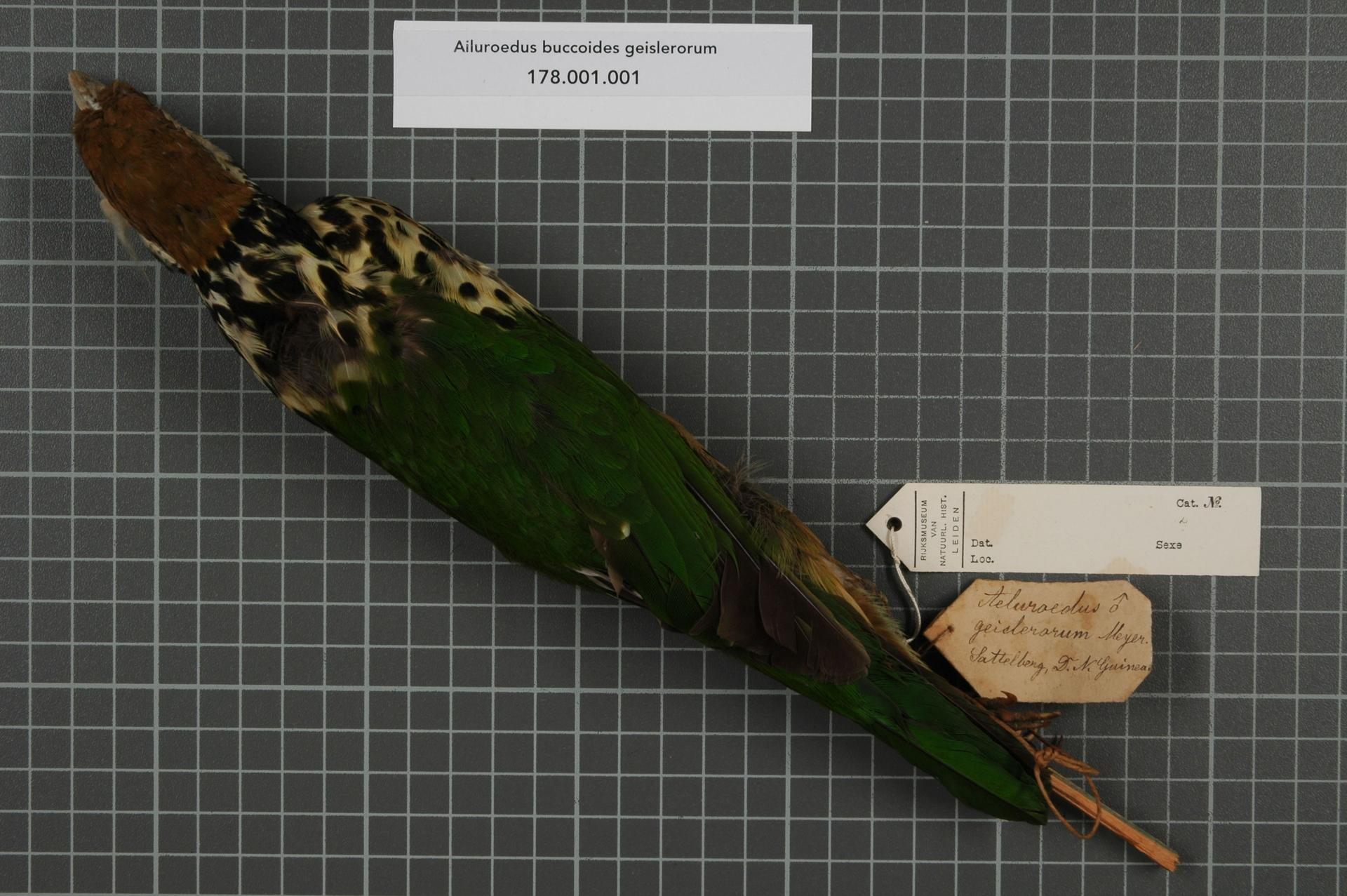 Ailuroedus buccoides geislerorum A.B. Meyer, 1891